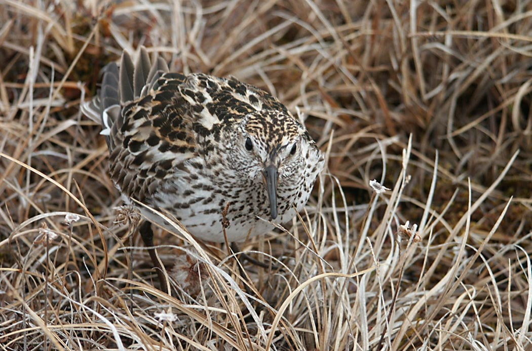 White-rumped Sandpiper (Calidris fuscicollis)